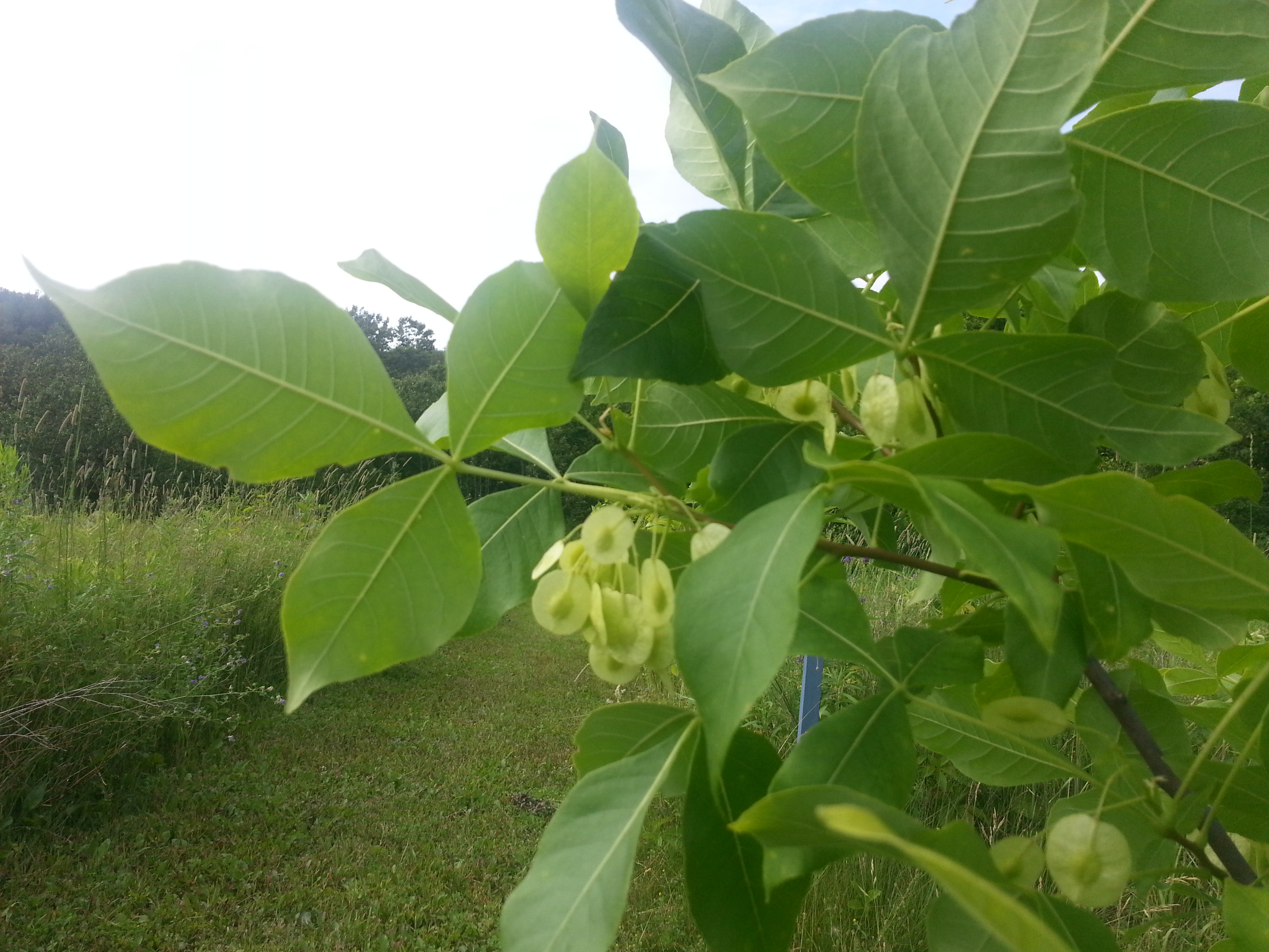 Hop tree at Oak Hills Farm